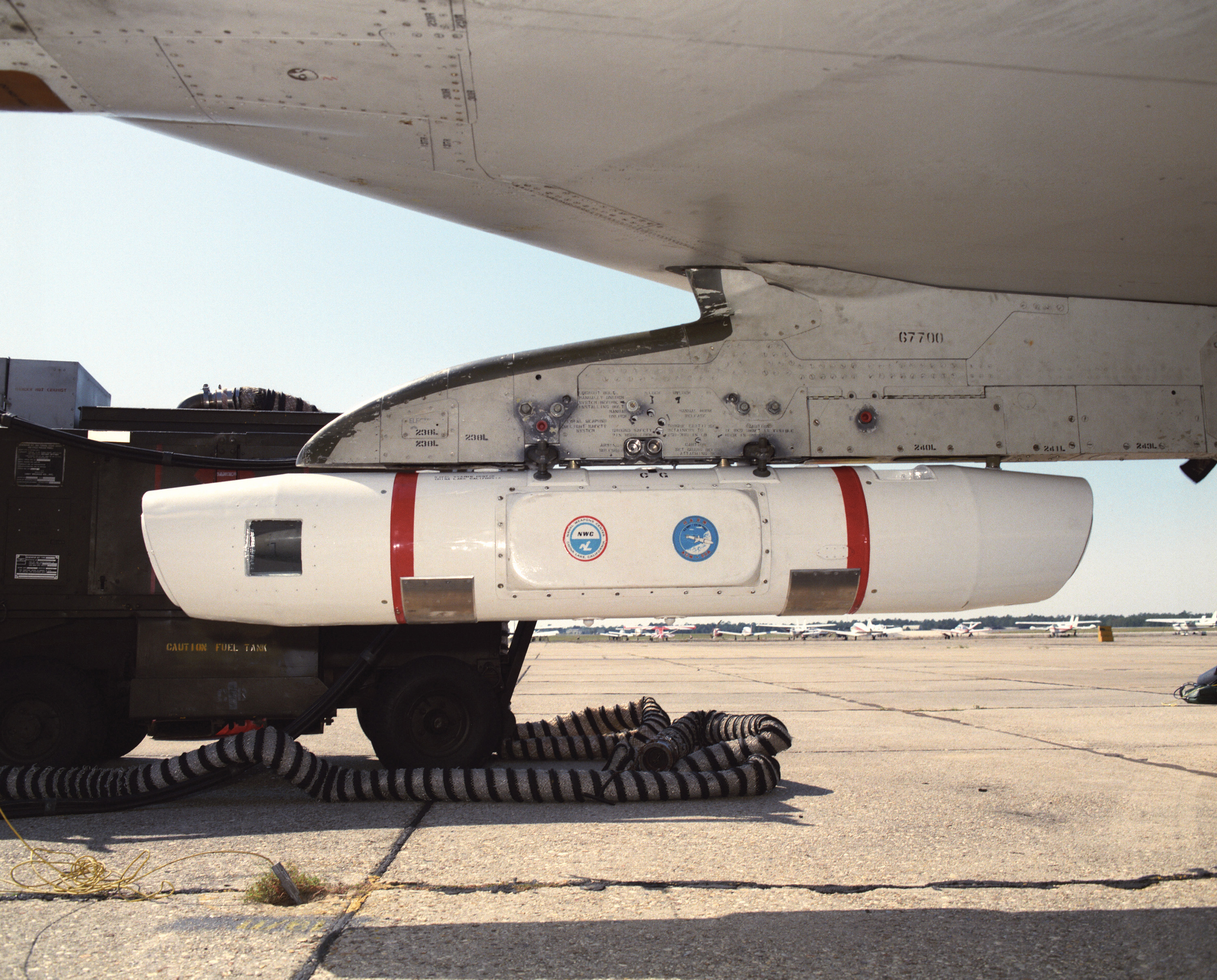 A U.S. Navy reconnaissance pod mounted on a U.S. Air Force McDonnell Douglas F-4D-32-MC Phantom II fighter (s/n 66-8700). The pod was used for tests with the AGM-88A high-speed anti-radiation missile (HARM) at Eglin Air Force Base, Florida (USA), in 1983.